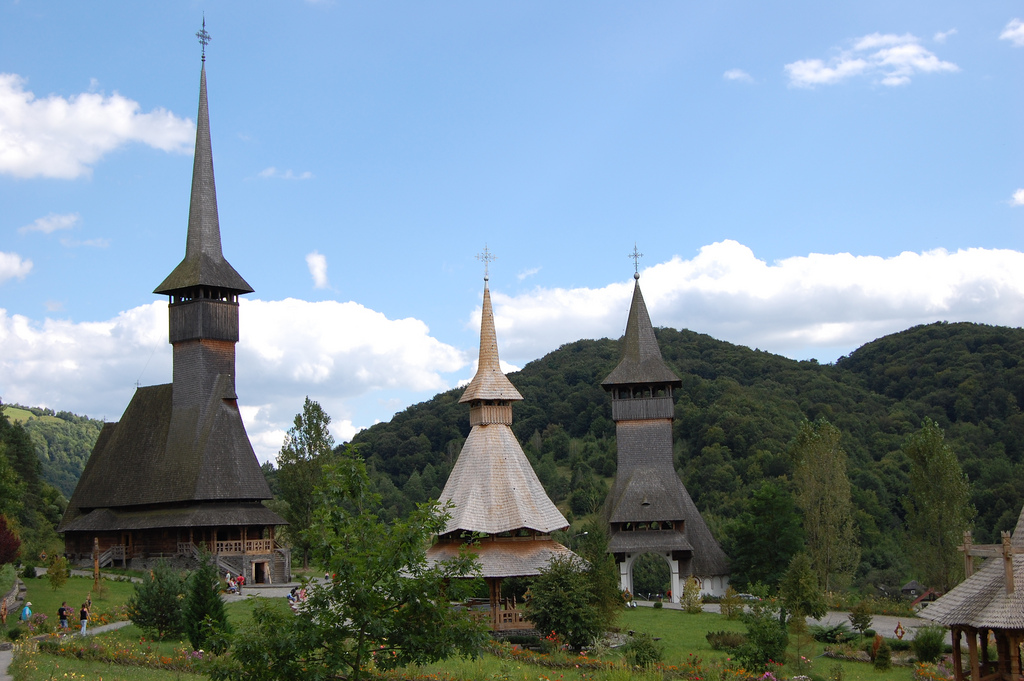 Barsana monastery, a wonderful place